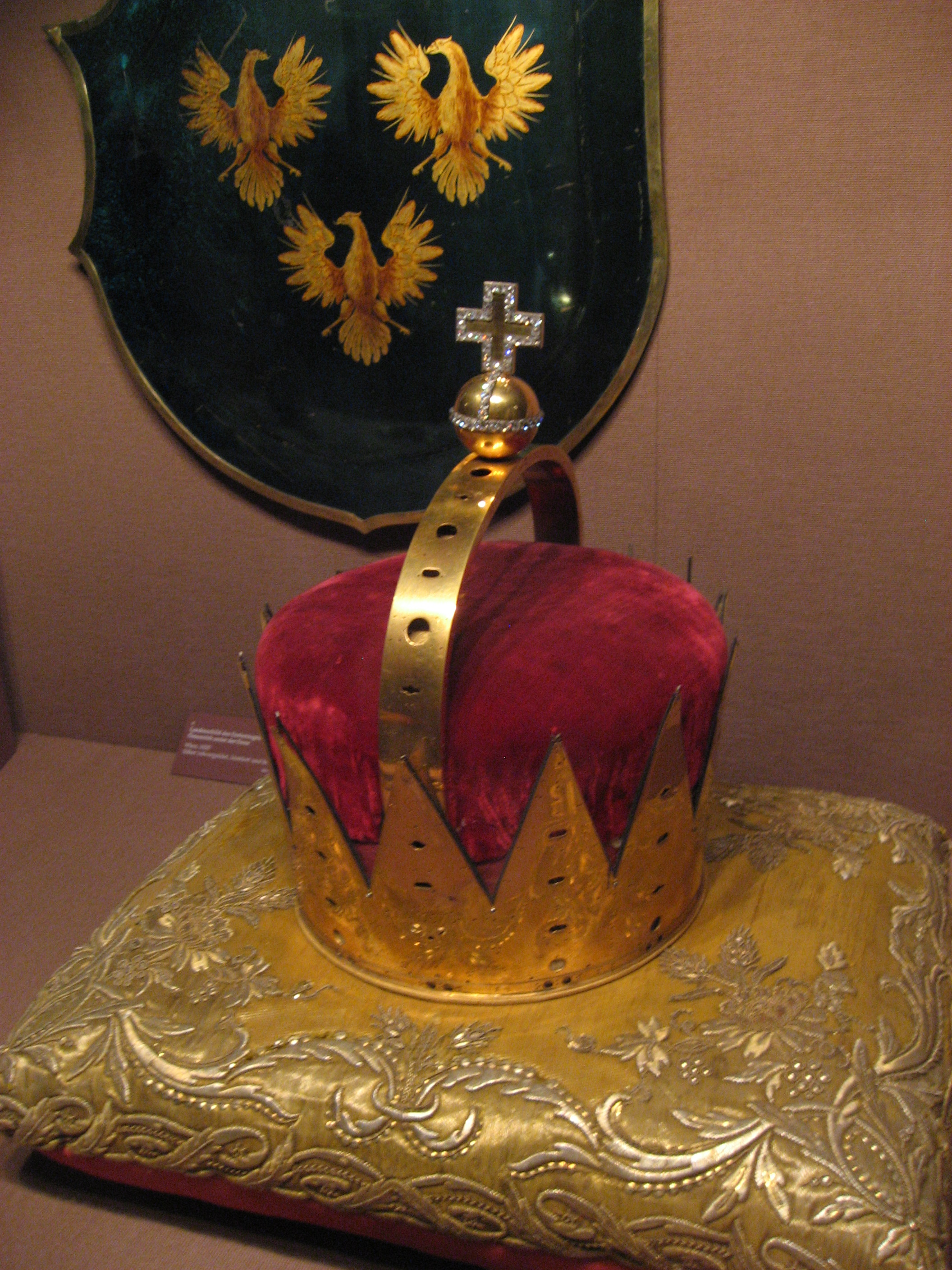 Metal frame of the Austrian archducal coronet used by Joseph II, Holy Roman Emperor for his coronation in Frankfurt in 1764.